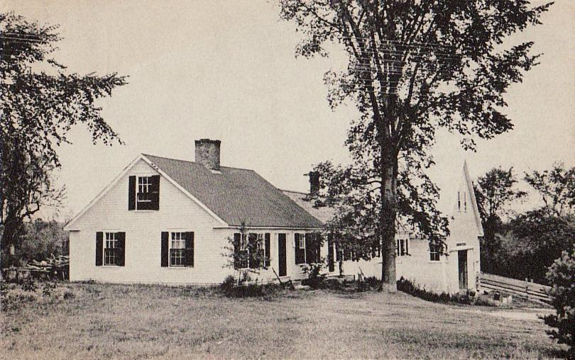 Hartford residence, Bridgton, Maine